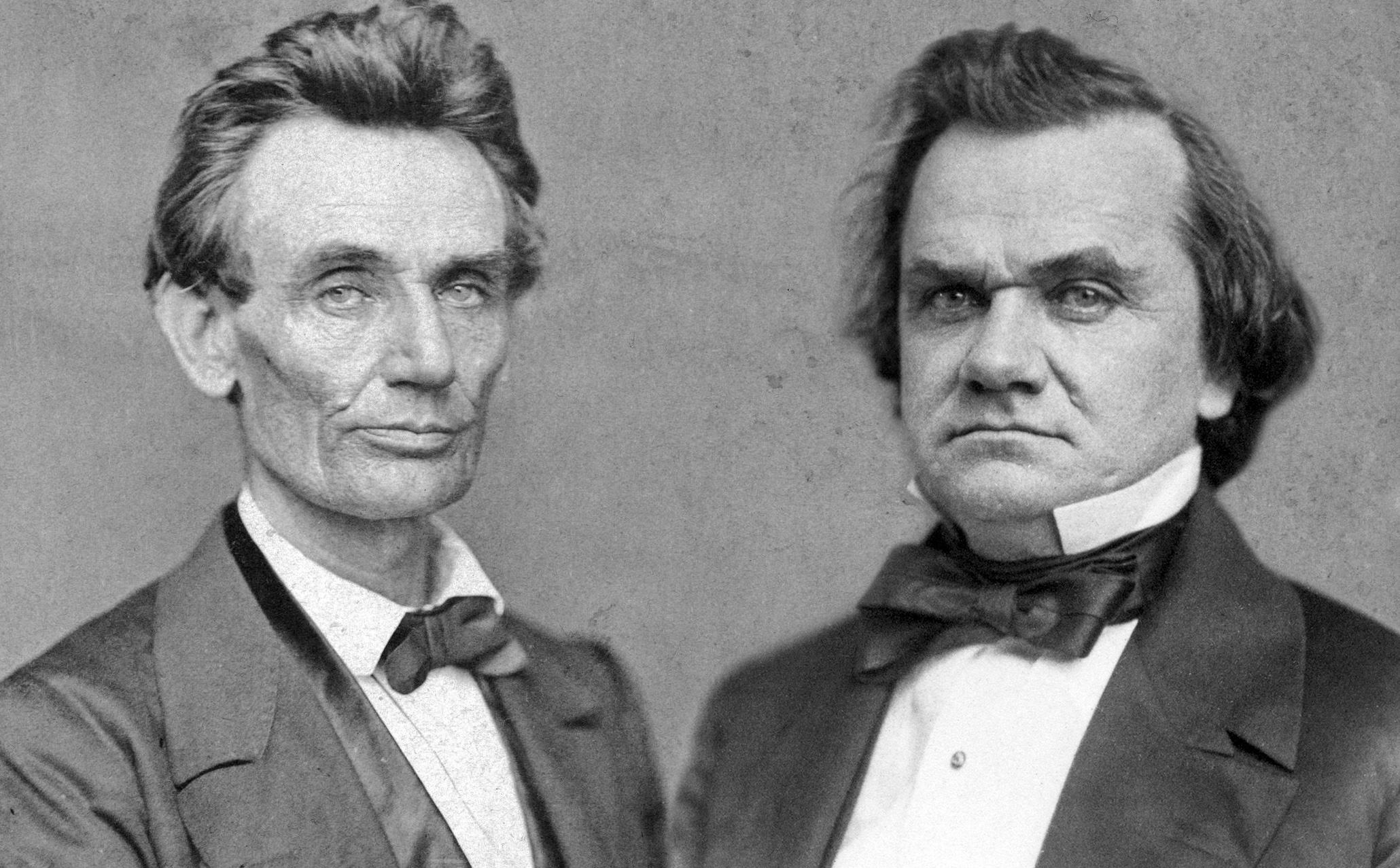 Composite image of portrait photographs of Abraham Lincoln and Stephen Douglas This is a retouched picture, which means that it has been digitally altered from its original version. Modifications made by Scewing.